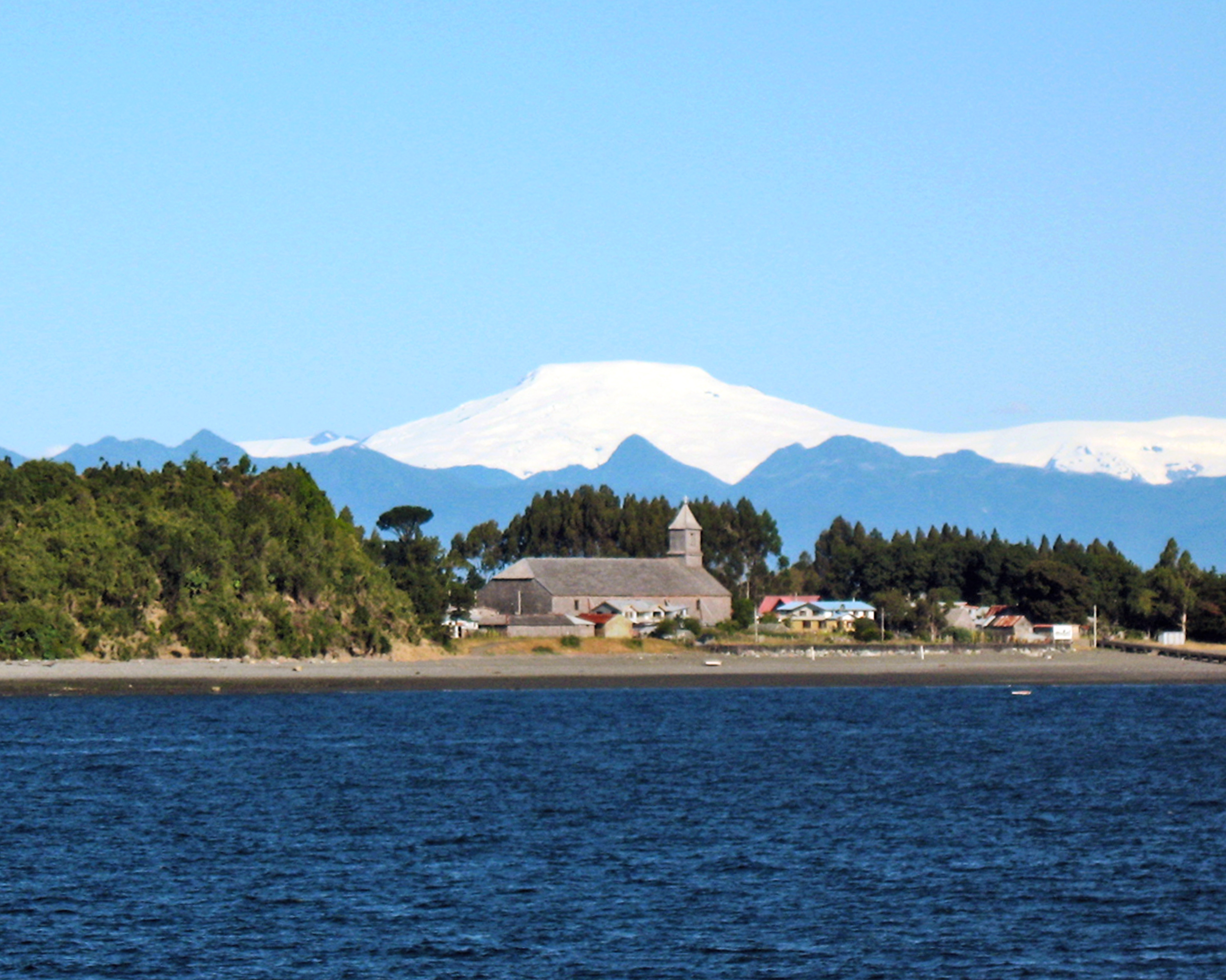 Church on Caguach Island, Chiloé Archipelago, Chile; Michinmahuida volcano in background.